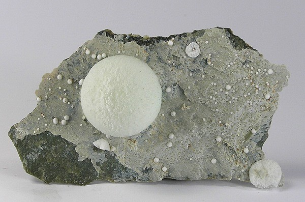 Artinite Locality: New Idria District, Diablo Range, San Benito County, California, USA (Locality at ) Size: 9.2 x 5.2 x 1.5 cm. An absolutely pristine ball of California artinite (Zinn Coll. #1077). Artinite is a rather rare and lesser-known carbonate mineral (though it LOOKS a lot like some well-known zeolite minerals) that sometimes forms these perfect balls of radiating, fibrous crystals. Its chemical formula is Mg2CO3(OH)2 + 3H2O (Hydrated Magnesium Carbonate Hydroxide). HUGE ball of artinite here!